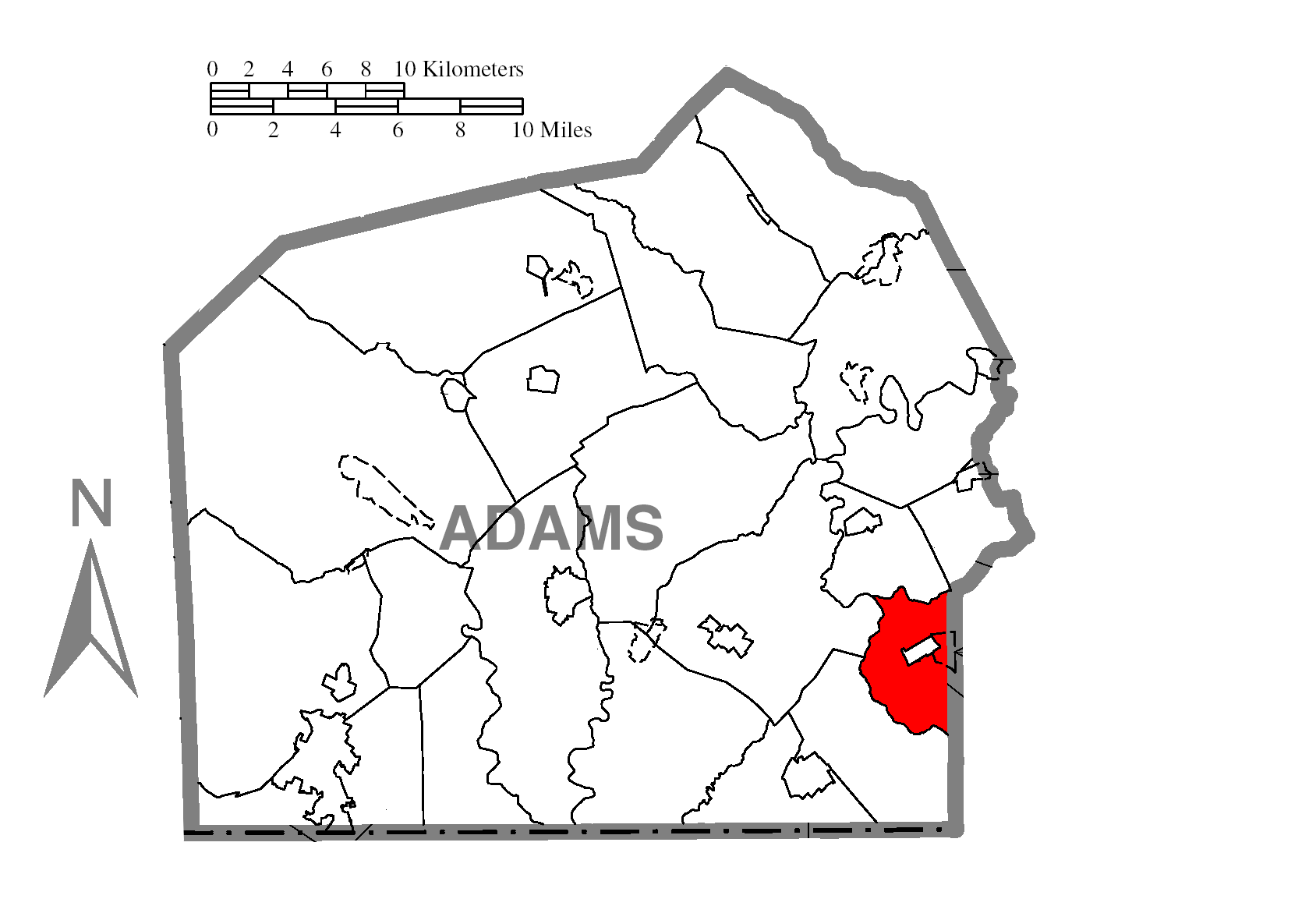 A map of Adams County showing Conewago Township, Pennsylvania (alternate) highlighted on the map.